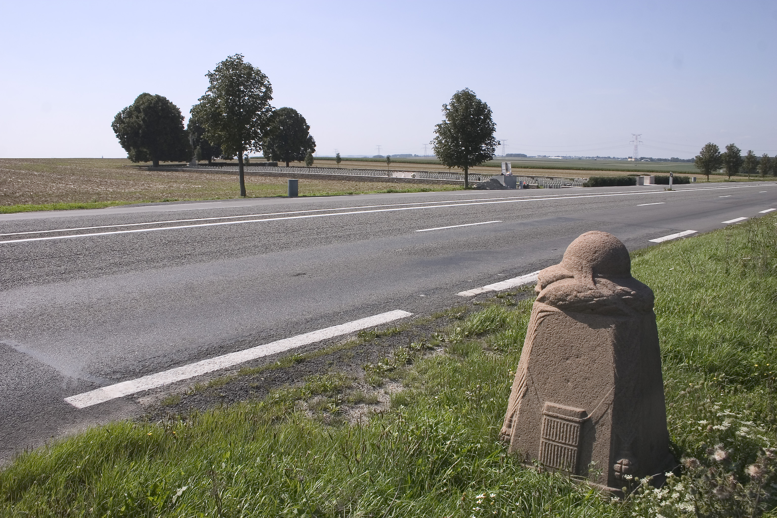 One out of 119 bornes Vauthier, which together materialize the front line at July, 18th 1918.